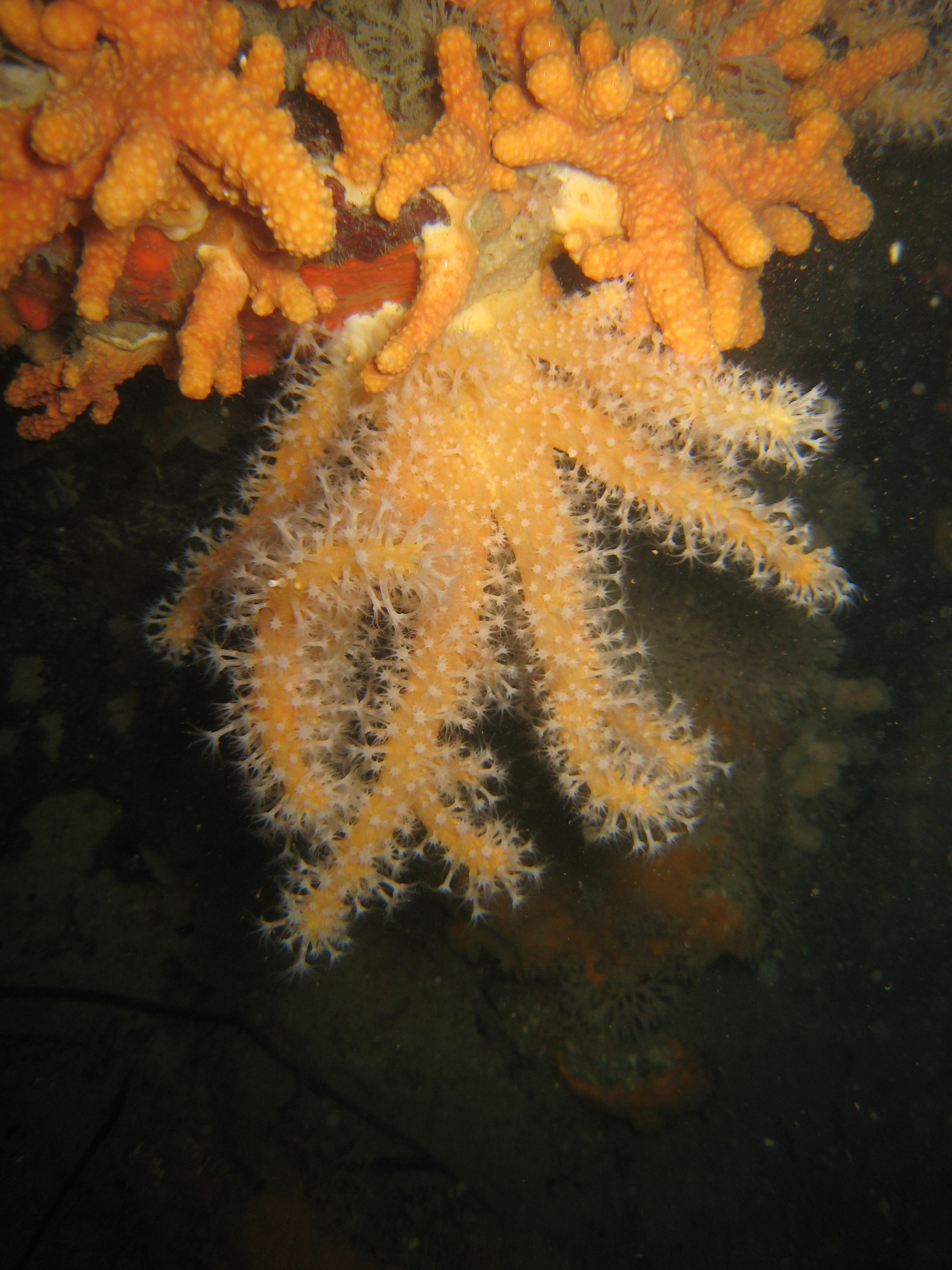 Alcyonium glomeratum in Carantec.